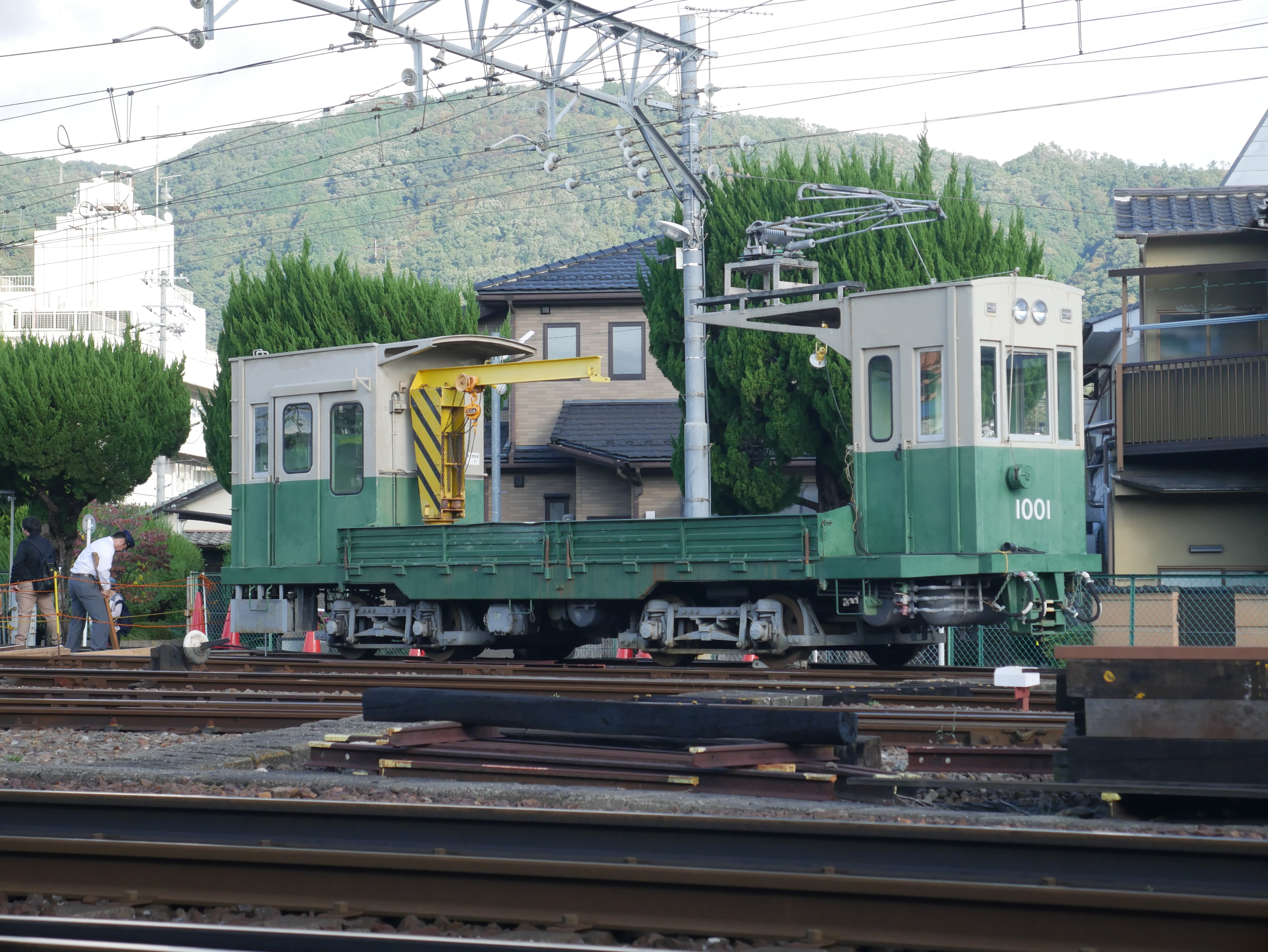 Eizan Electric Railway DETO 1001 at Shugakuin Depot